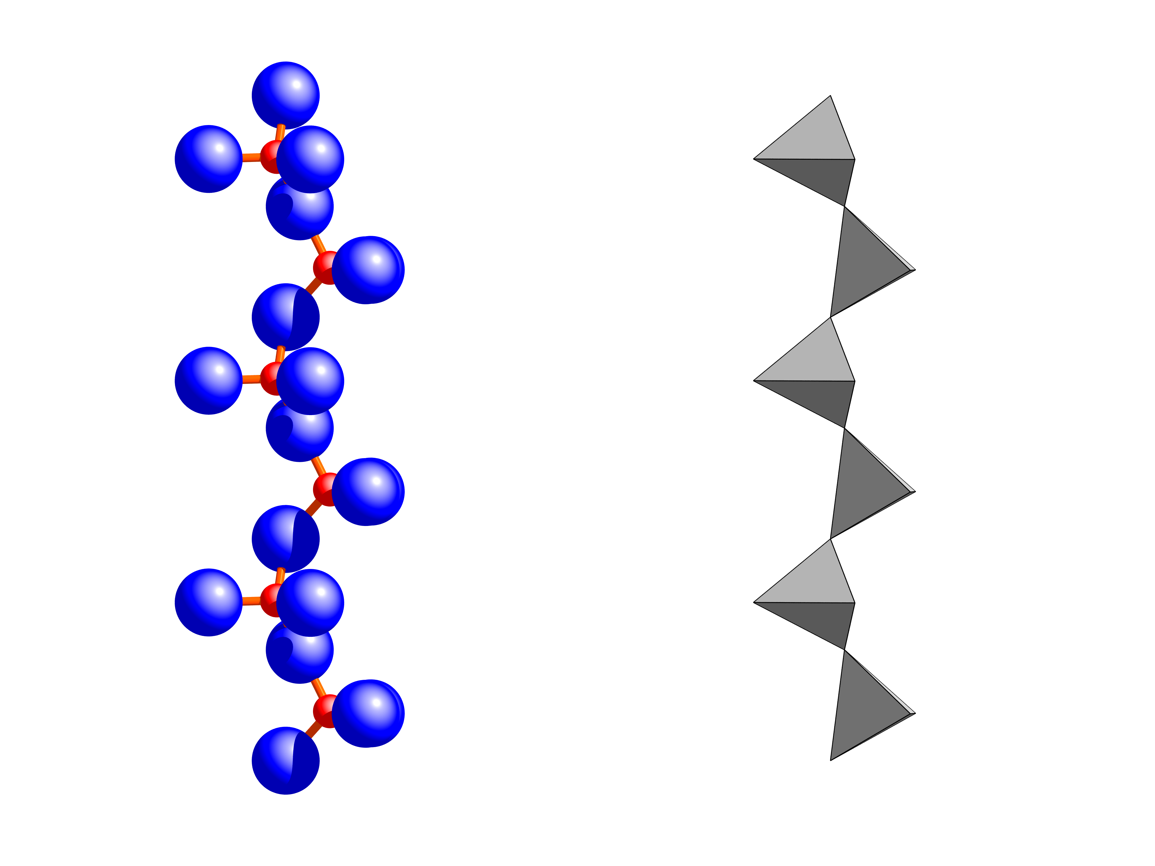 part of aerinite structure: zweier-single-chain of corner sharing SiO-tetrahedra gray: silicon blue: oxygen